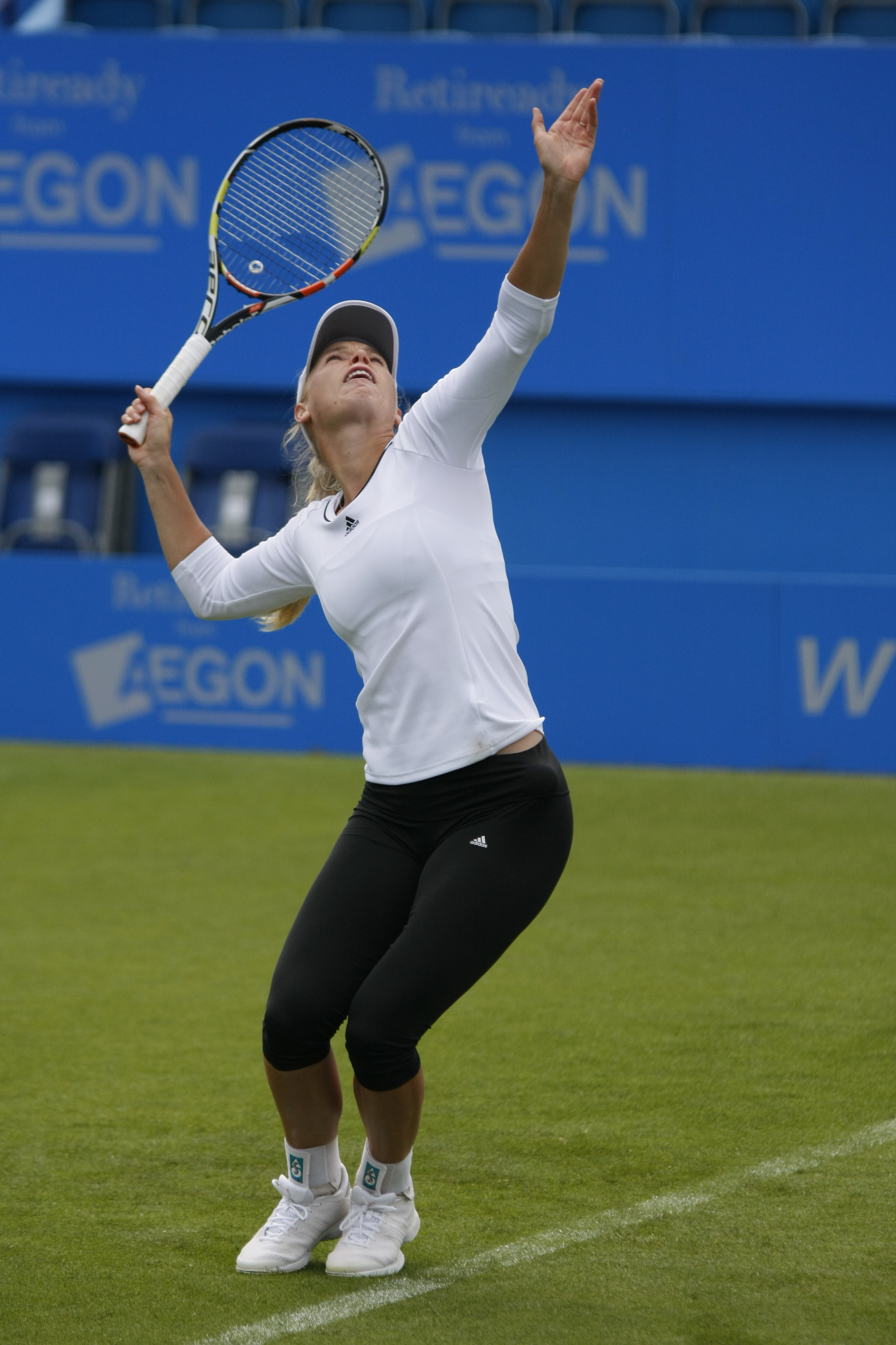 Aegon International Tennis, Devonshire Park, Eastbourne June 2015